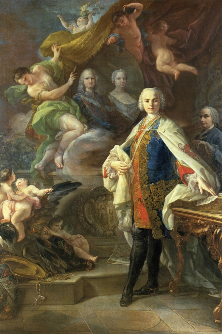 Portrait of Farinelli (1705-1782)